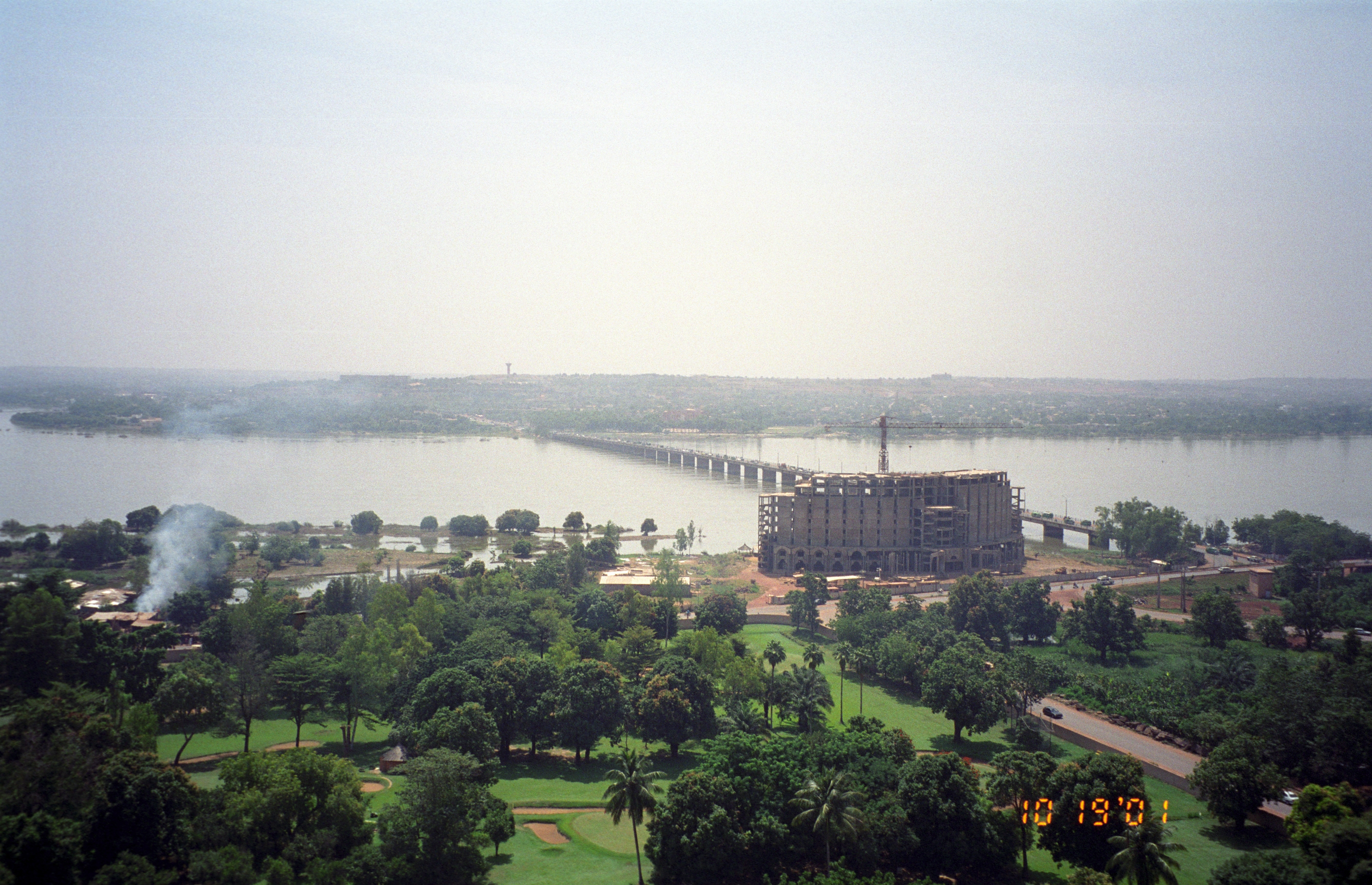 View over the bridge on the Niger River in Bamako, Mali. Looking south over the Hotel de l'Amitie and the Pont Des Martrys.